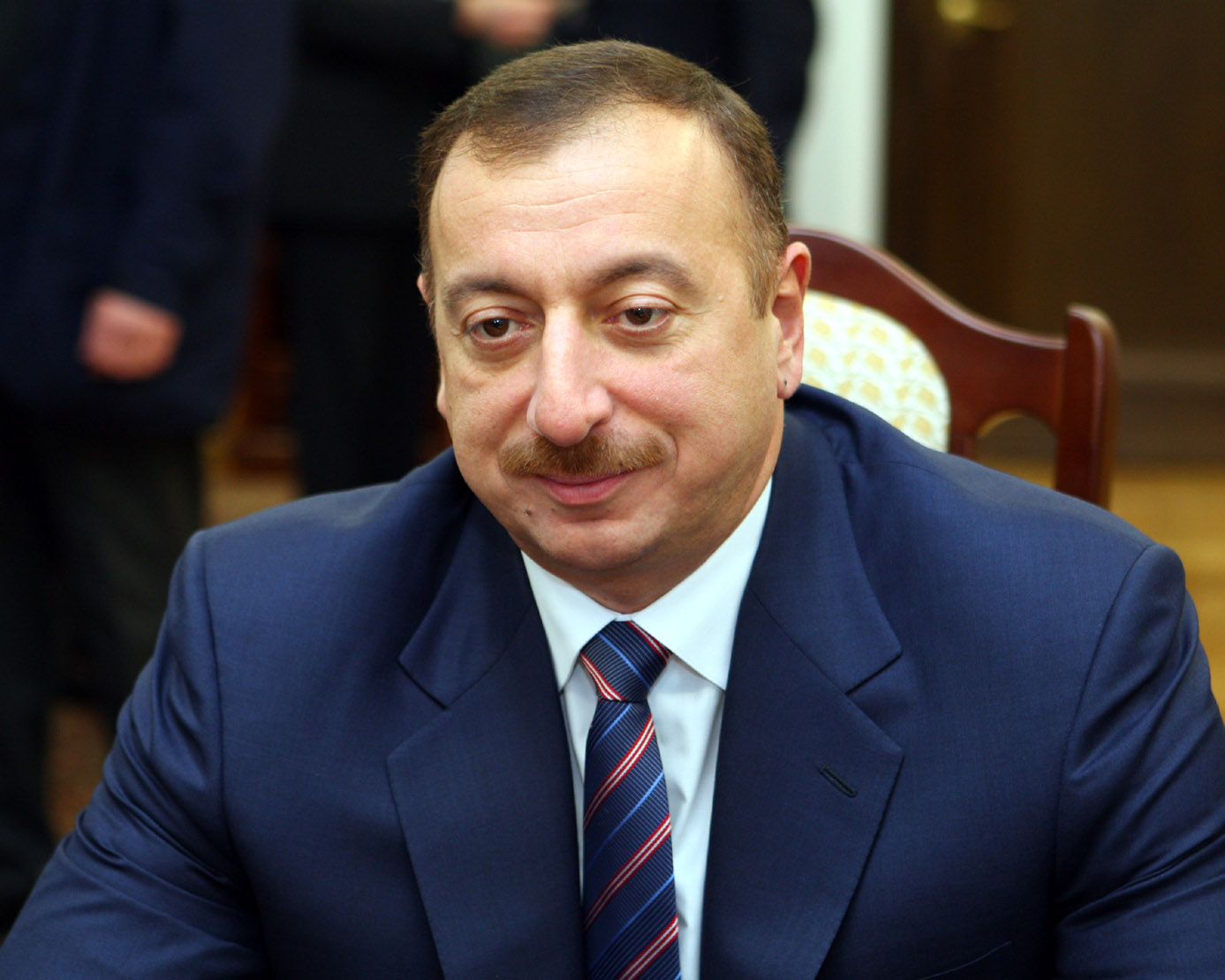 Ilham Aliyev